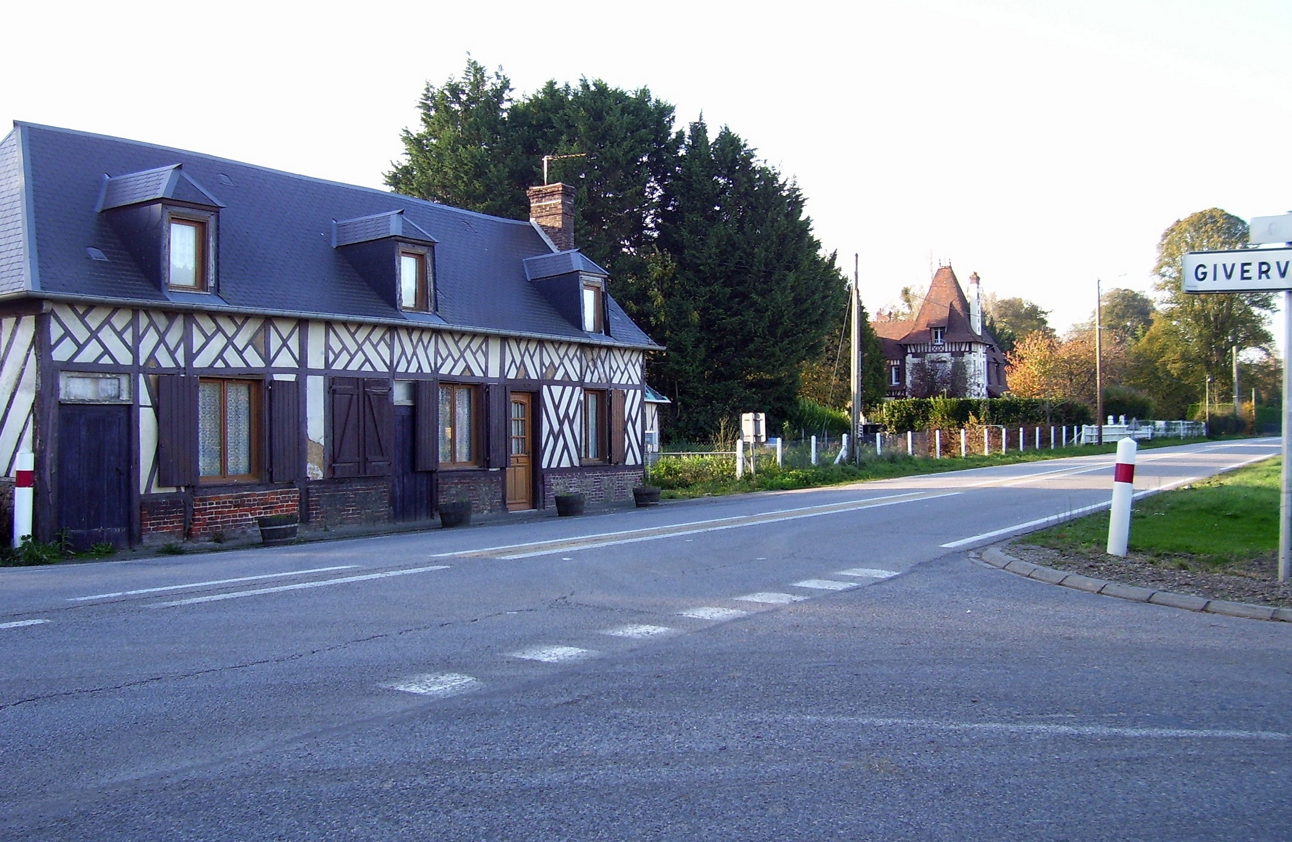 Departement road D 834 at Bazoques (France).